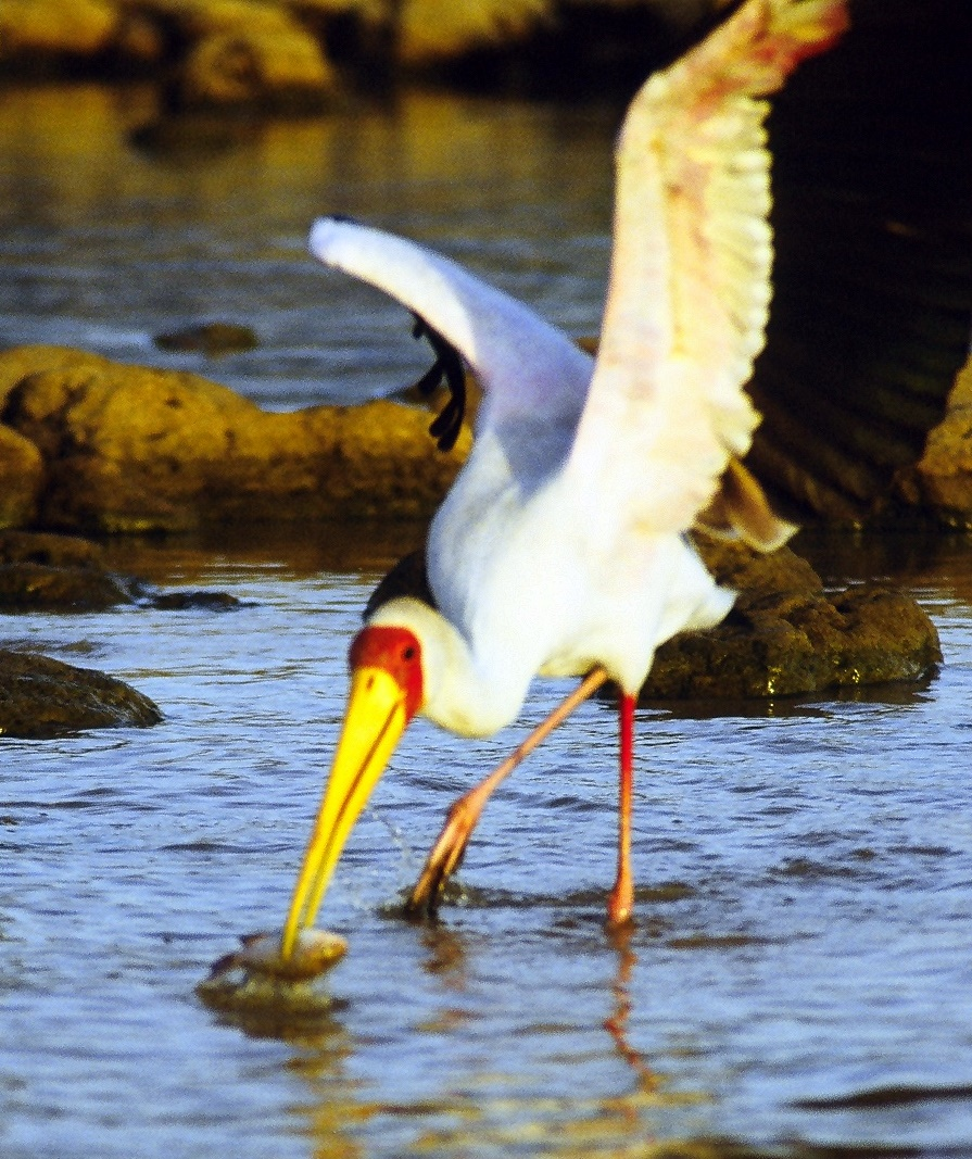 A yellow-billed stork fishing on Lake Baringo, Kenya